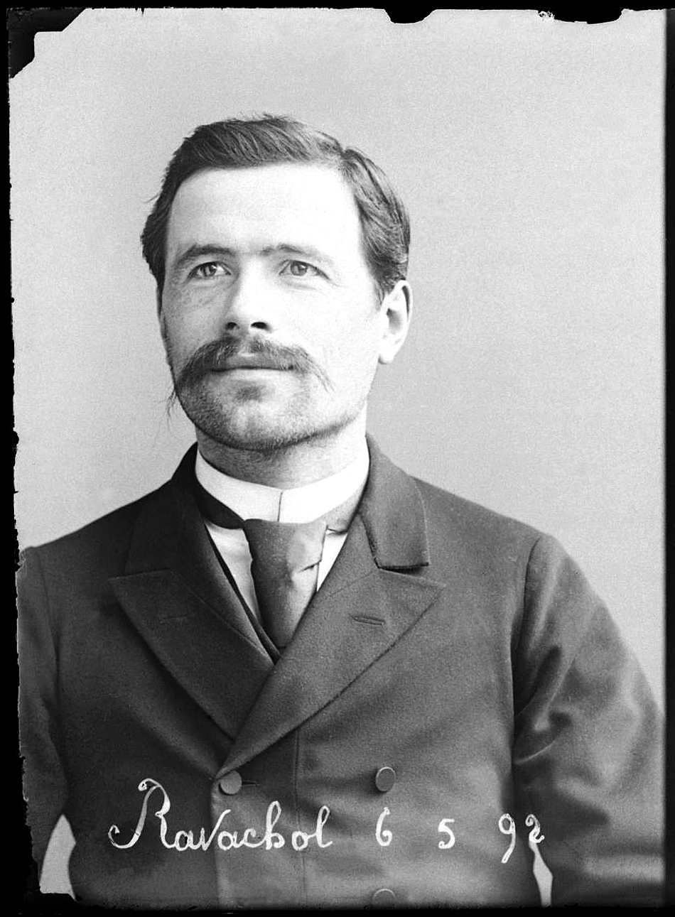 François Claudius Koënigstein, aka Ravachol (1859 - 1892), french anarchist.